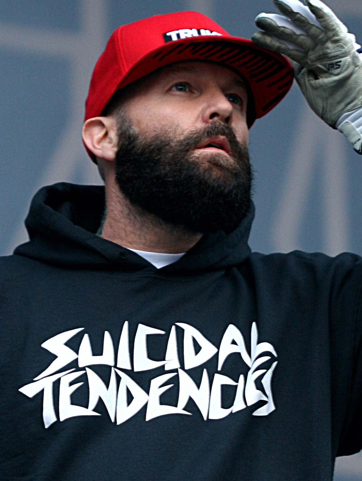 Fred Durst, singer of Limp Bizkit, on the Alterna Stage of Rock im Park-Festival 2013. Festivalsommer This photo was created with the support of donations to Wikimedia Deutschland in the context of the CPB project "Festival Summer".